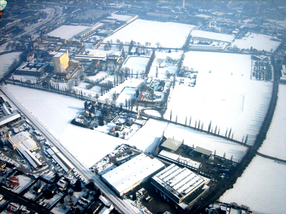 Privatphoto unter CC